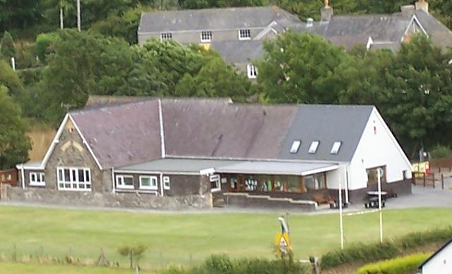 Myfenydd Primary School , Llanrhystud.